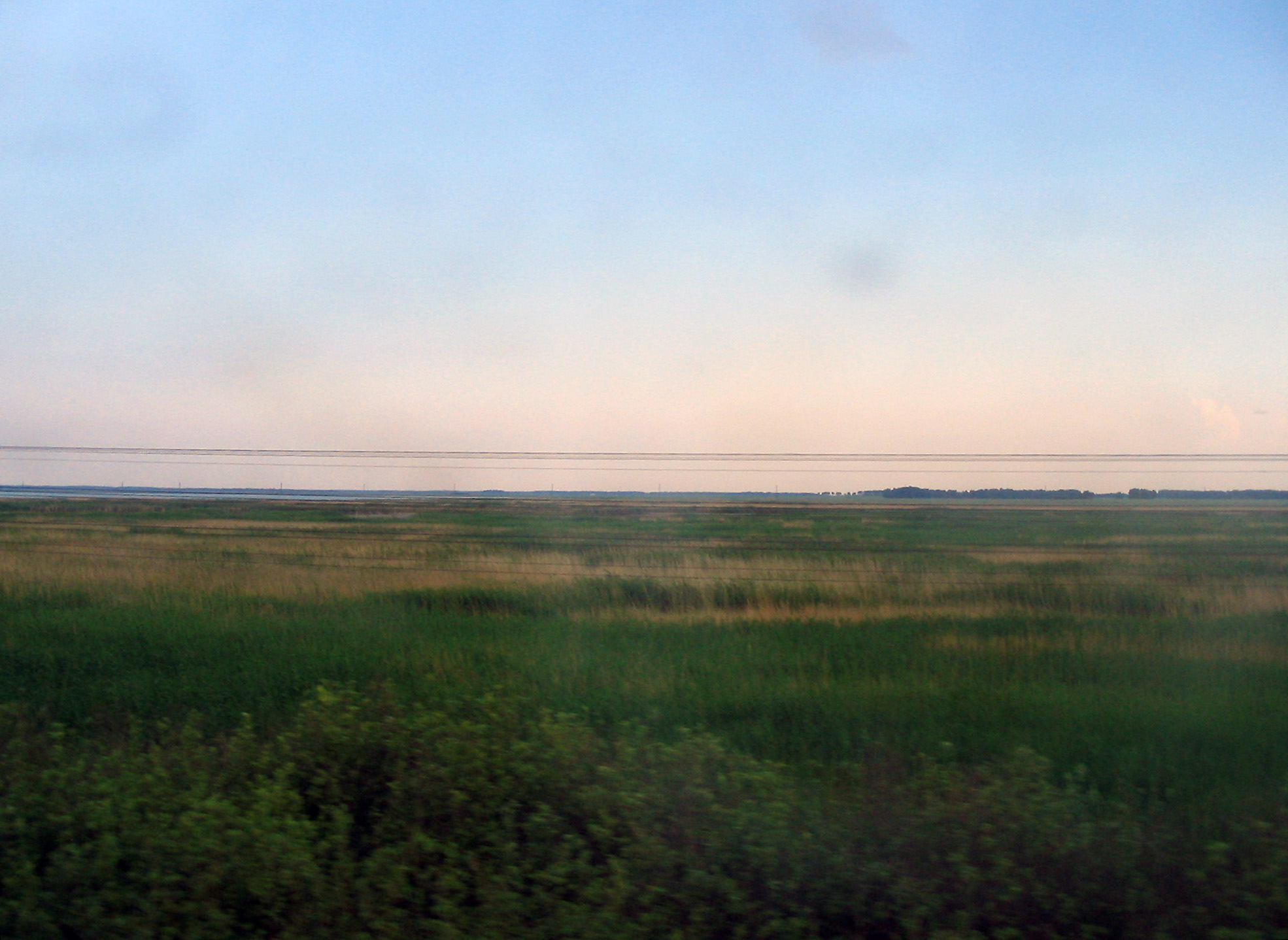 Picture of the Baraba/Barabinsk steppe in western Siberia. Plain in foreground with wooded areas in the distance. Taken from the trans-Siberian railway, hence the motion blur.